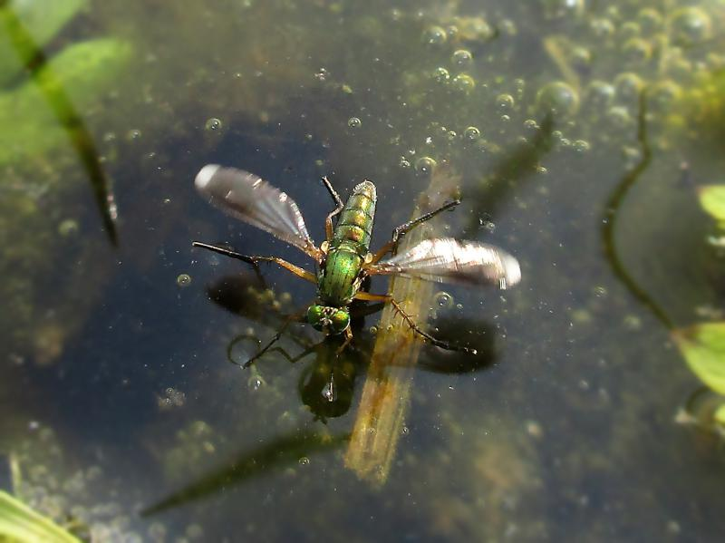 Poecilobothrus nobilitatus (Diptera sp.) male, Maastricht, the Netherlands